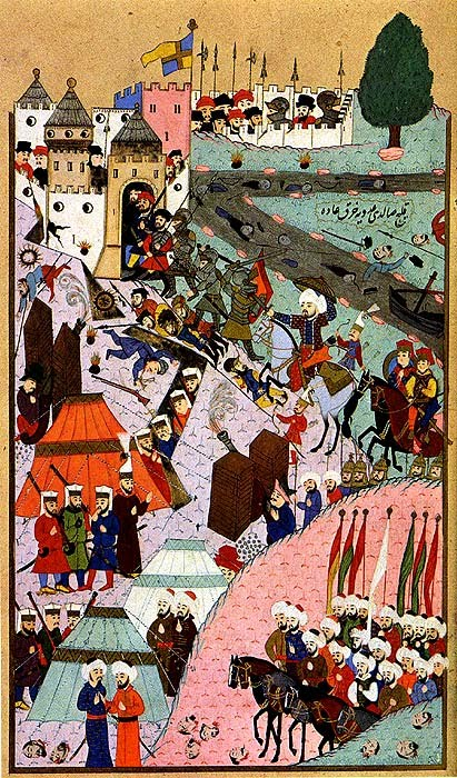 Illustrations of Ottoman soldiers from the Hünernâme of 1588 by Lokman